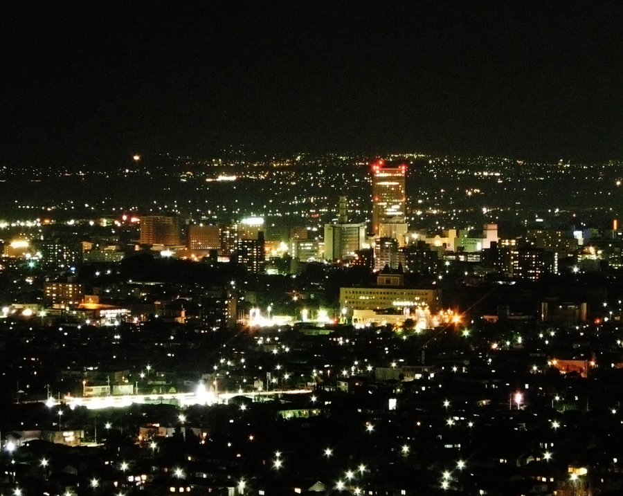 The night of Yamagata city. Downsized, cropped, noise reduced and curve adjusted, to be a good illustration for the light article.